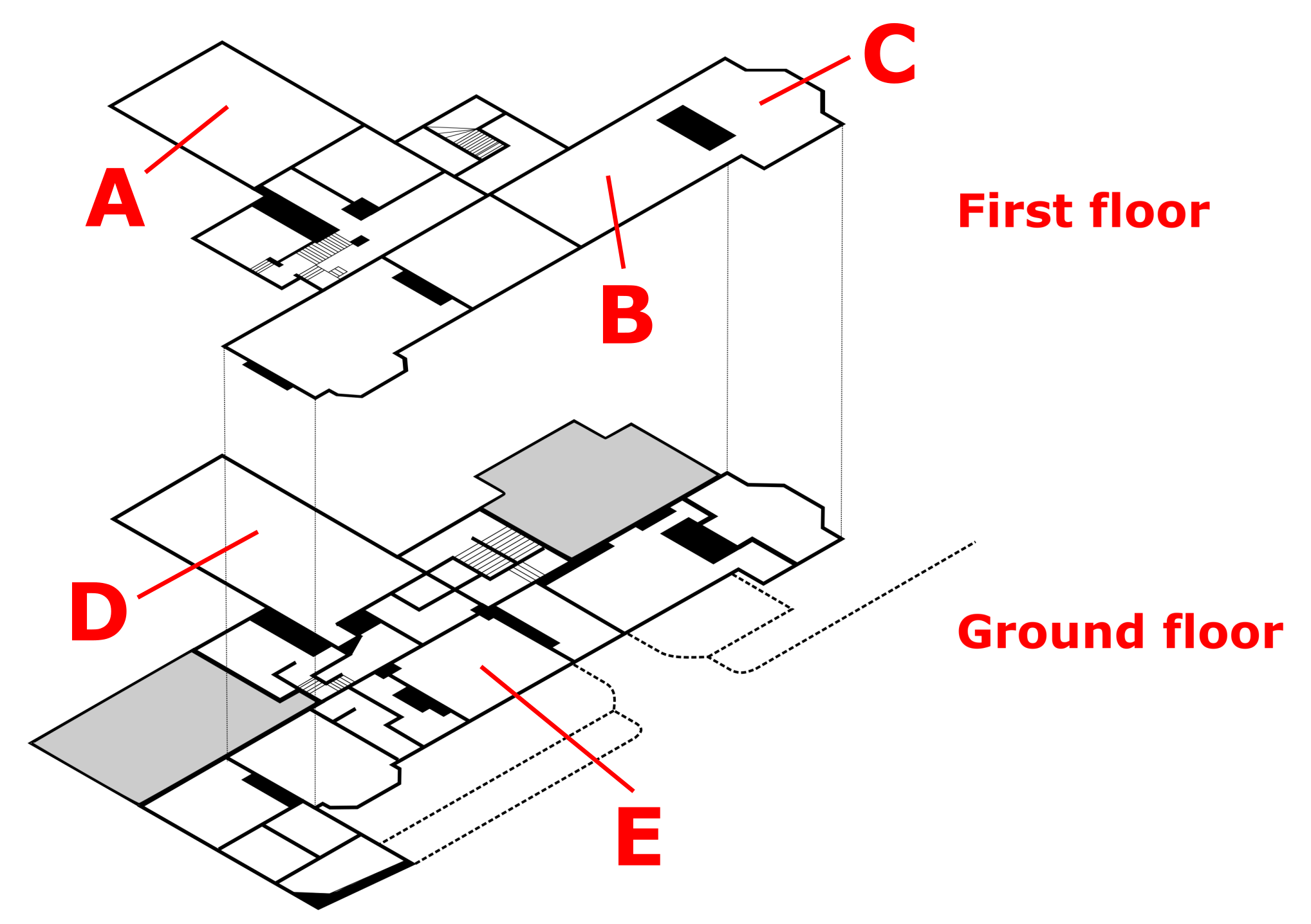 Chartwell House Floorplan - labelled